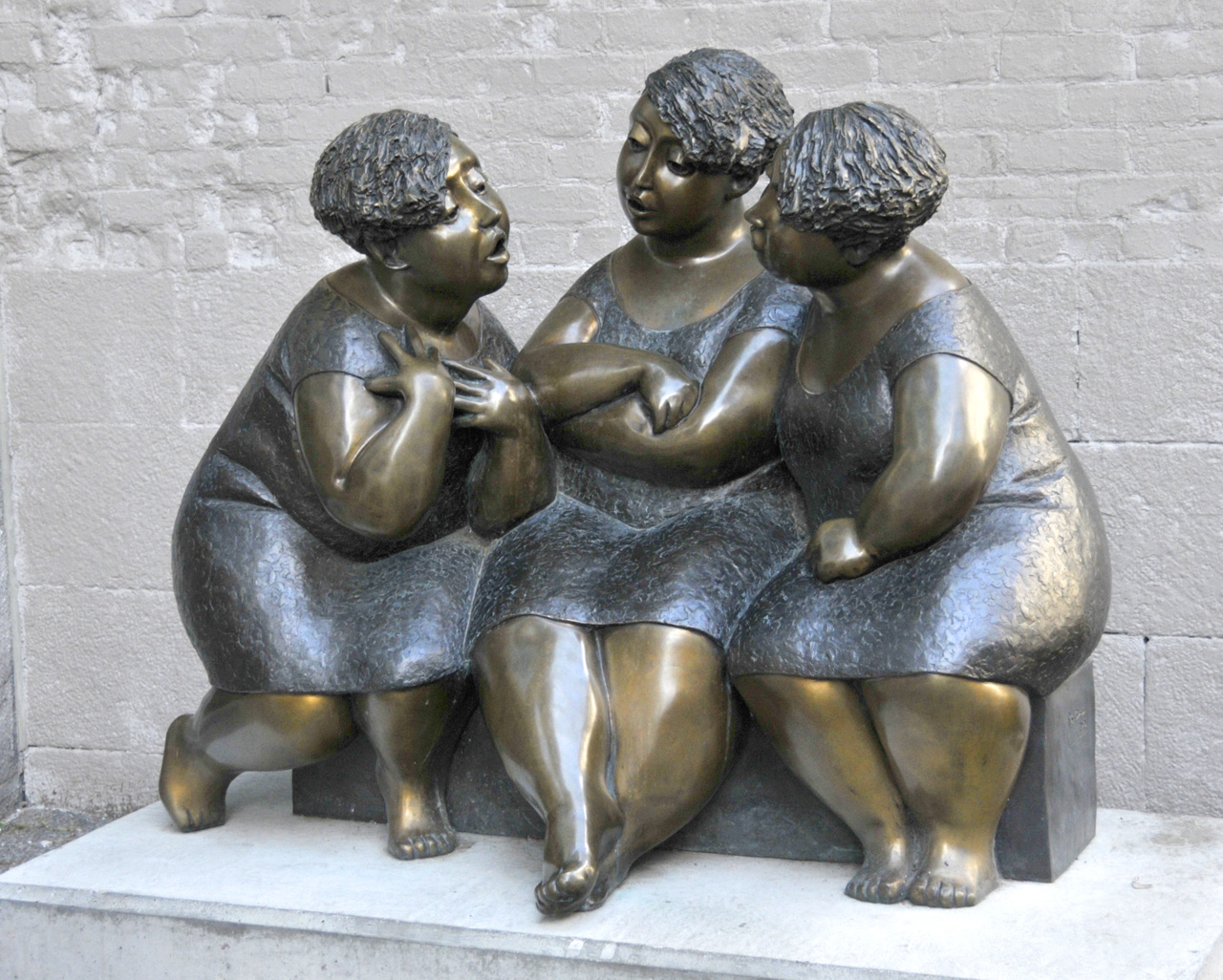 This is a bronze sculpture by Rose-Aimée Bélanger. More about Rose-Aimée PS'd a bit to increase exp.